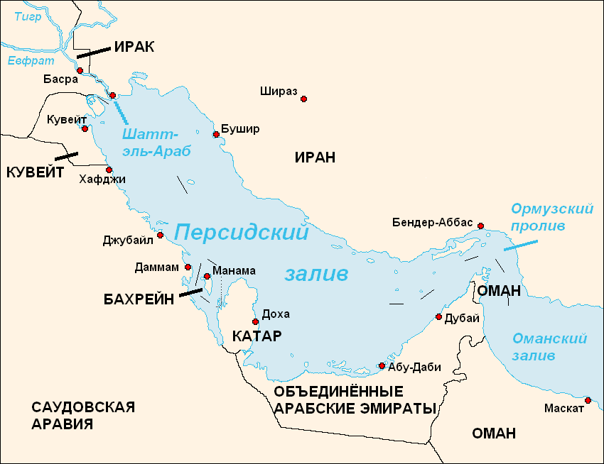 FrenchCarte dugolfe Persique(wp-FR),avec noms en russe.EnglishMap ofPersian Gulf(wp-EN),with Russian names.